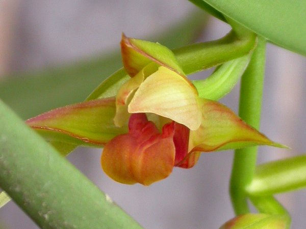 Eria